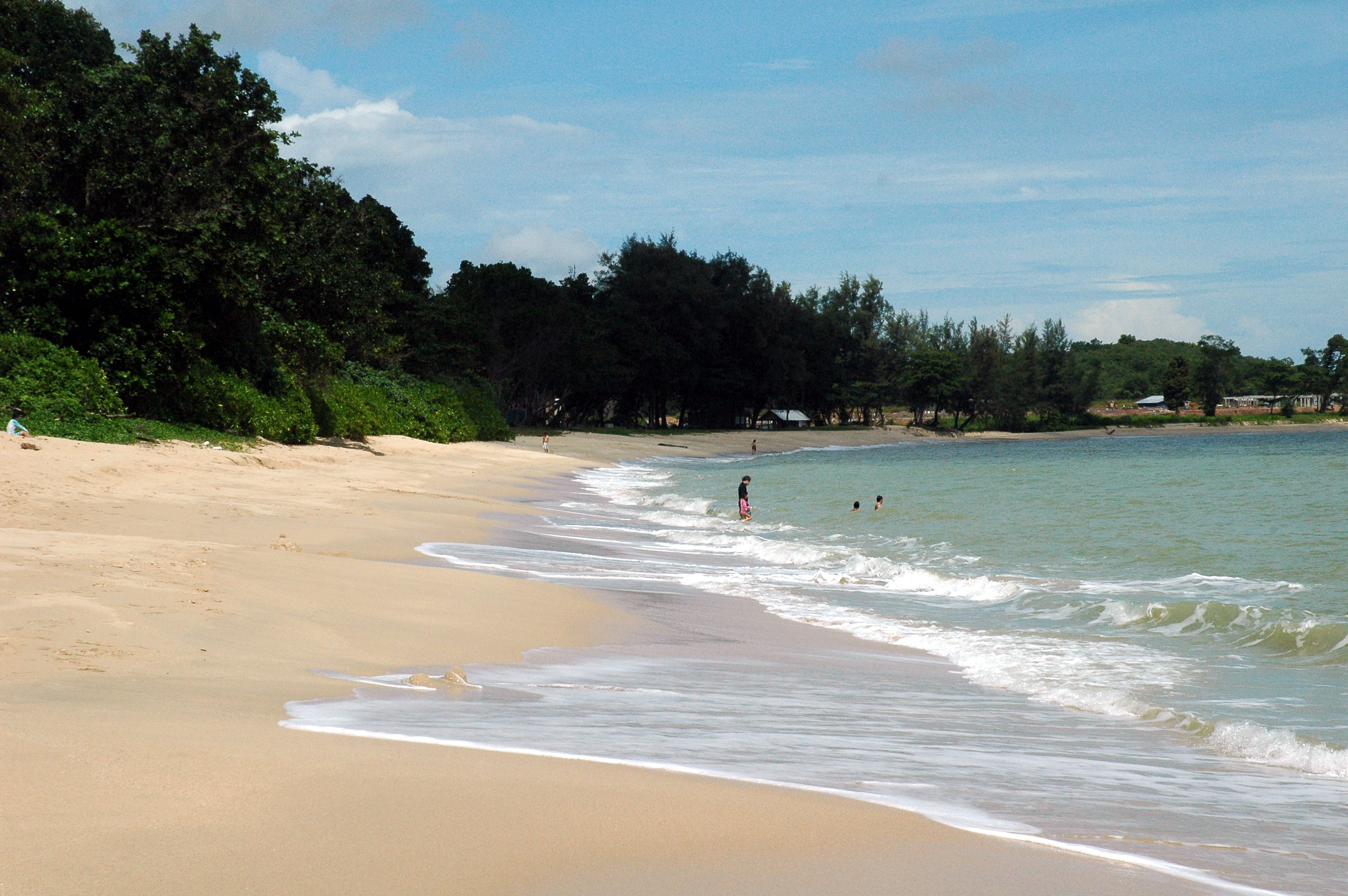 Desaru Beach, in front of The Pulai, Desaru.